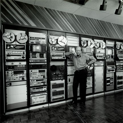 Bill Muster, CCI president, in the computer room of the CCI post-production studios at 6900 Santa Monica Boulevard, in Hollywood, c. 1980.